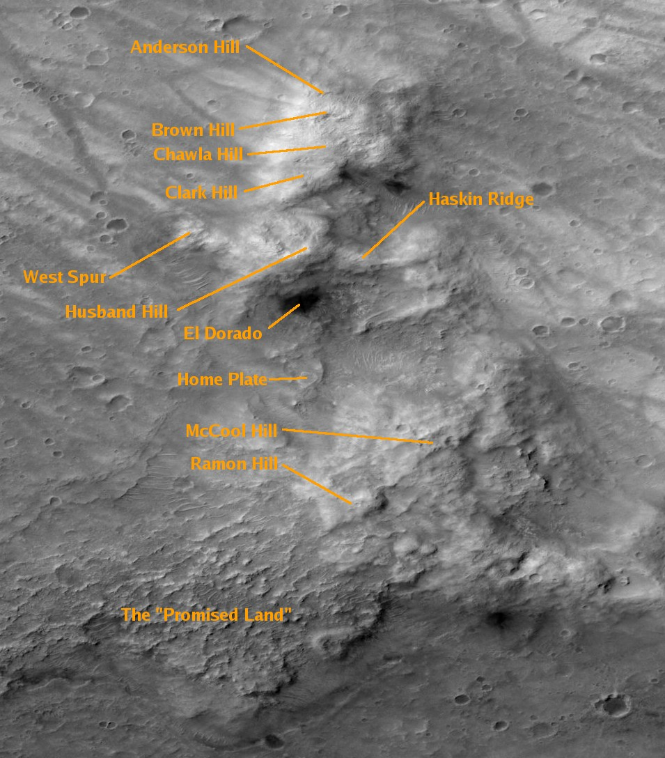 A labelled overhead view of the Columbia Hills. Background image taken by the Mars Global Surveyor - image R0200357 (warning - raw PDS data!), courtesy of NASA/JPL/MSSS. Information mainly from here and rover observations.